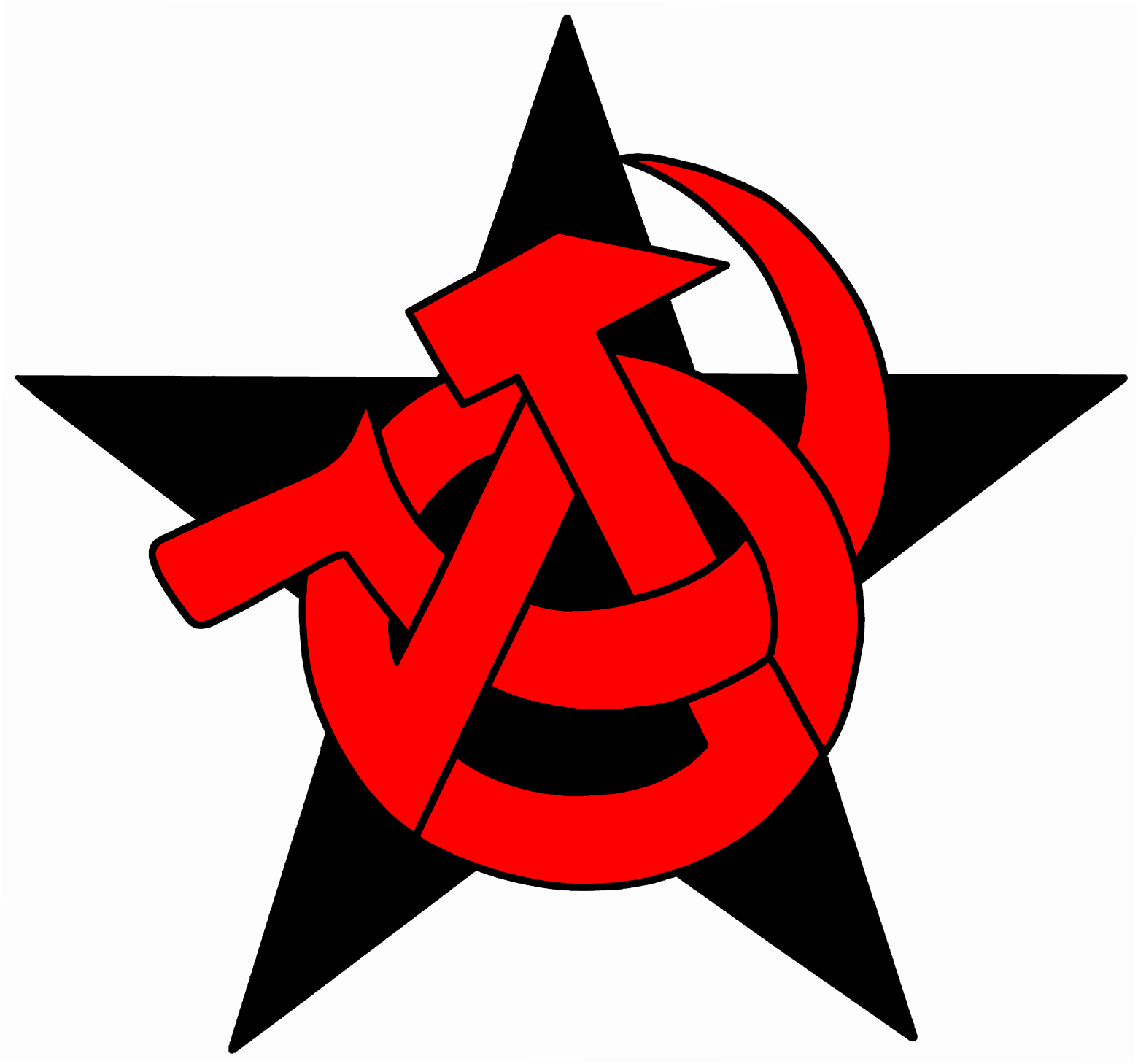 I designed this symbol in 2001, a couple years after I began studying Anarchist and Communist theory. It has since been used by a few activist groups, most noteably the Red & Anarchist Action Network. I wanted to make something that would signify the much needed unity between all anti-authoritarians, whether they consider themselves to be under the banner of Anarchism, Libertarian Socialism, Anarcho-Communism, or no banner at all. The symbol is a convolution of the hammer and sickle of communism and the circled letter A of anarchism.